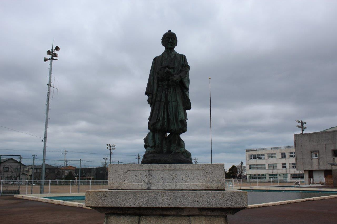 枝権兵衛（2012年12月撮影）